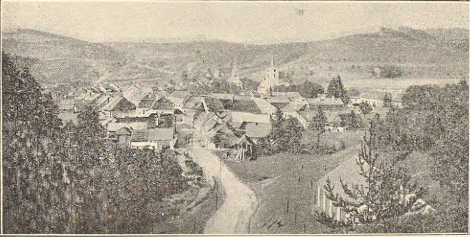 Picture of Jimramov from Hasičská kronika.